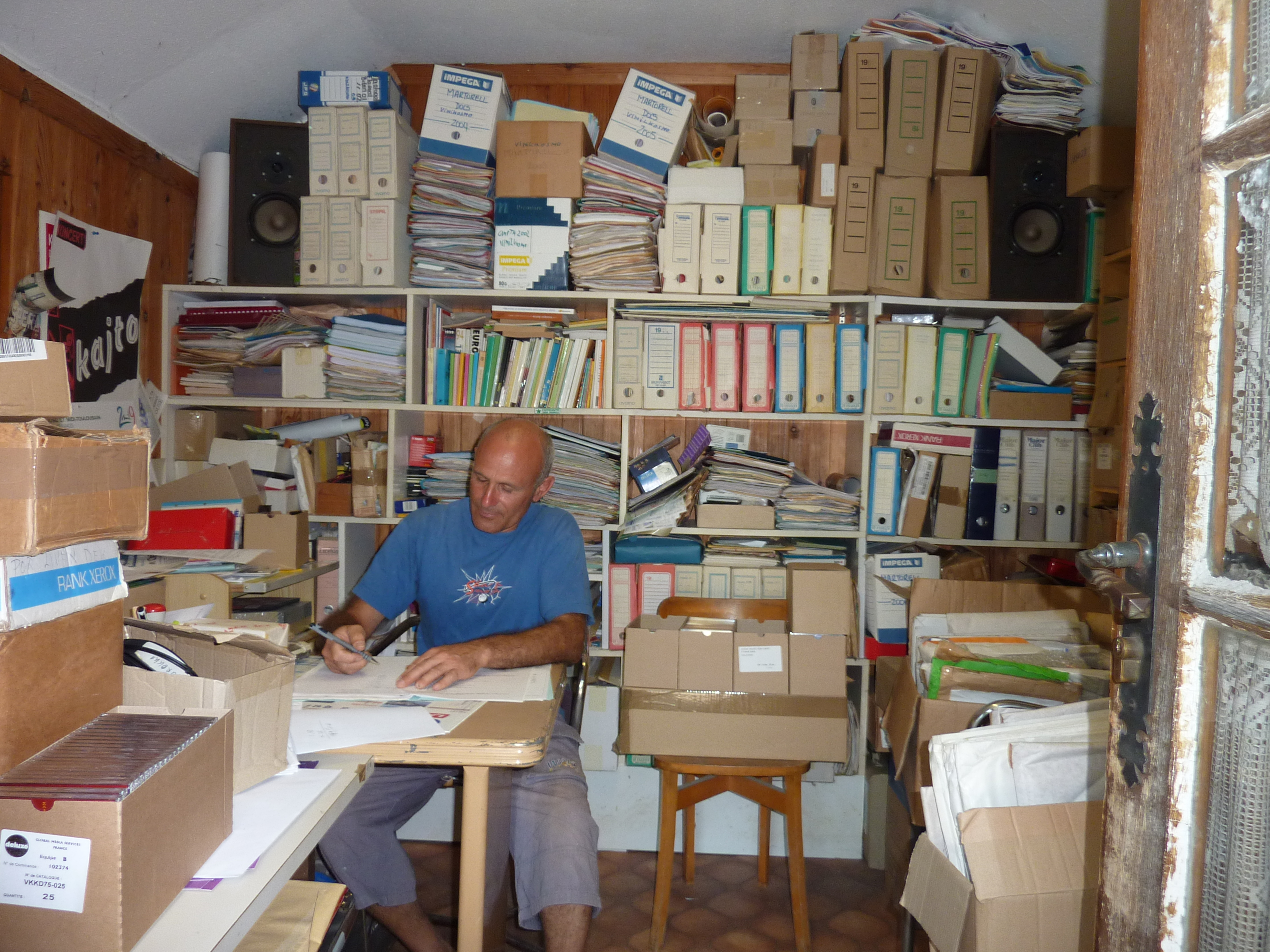 Floréal Martorell in the office of the music publishing house Vinilkosmo in Donneville near Toulouse, France.